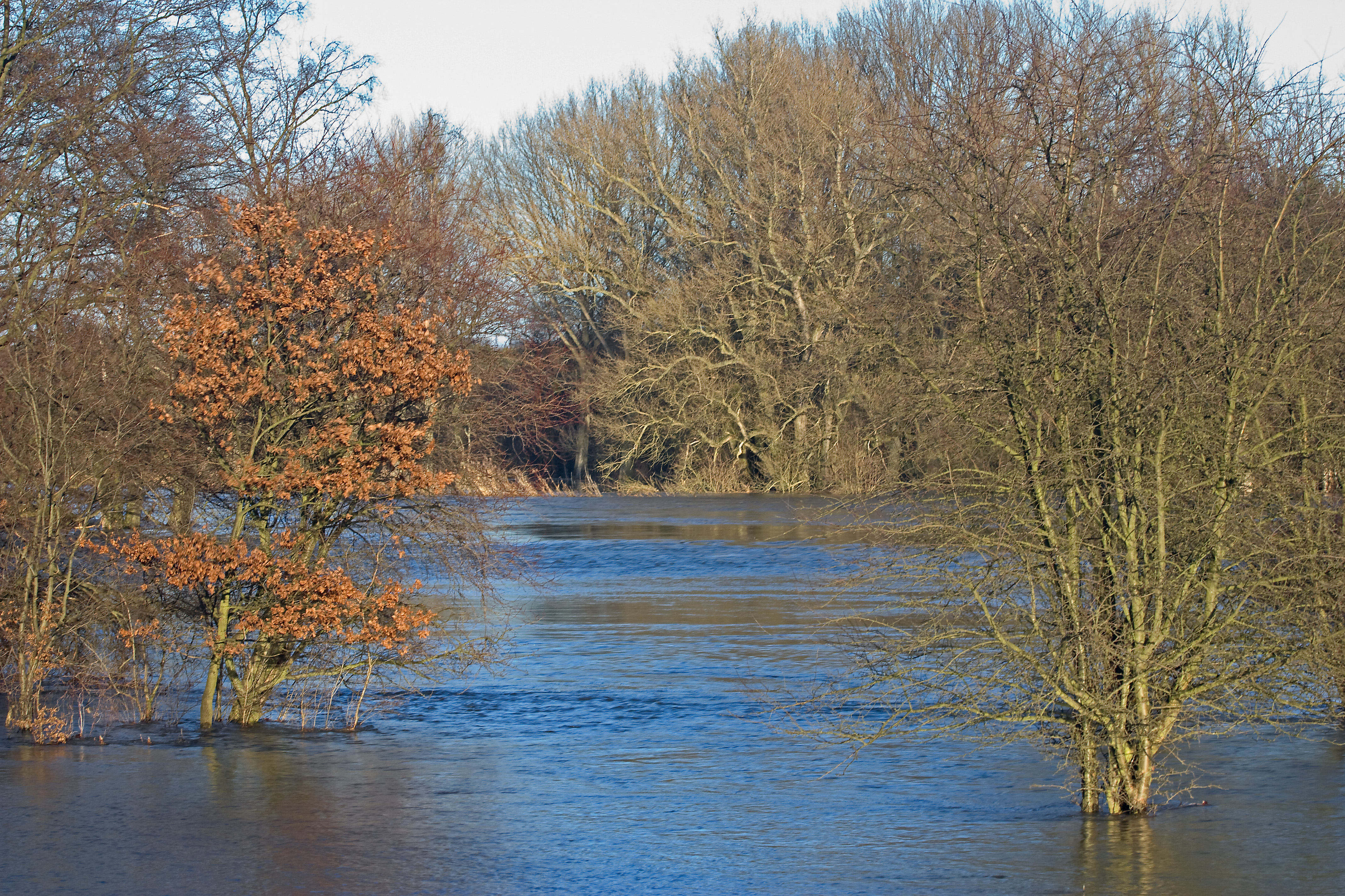 Flood of the river Mulde close to Törten, a district of the town Dessau-Roßlau (Nature reserve Untere Mulde, Saxony-Anhalt)